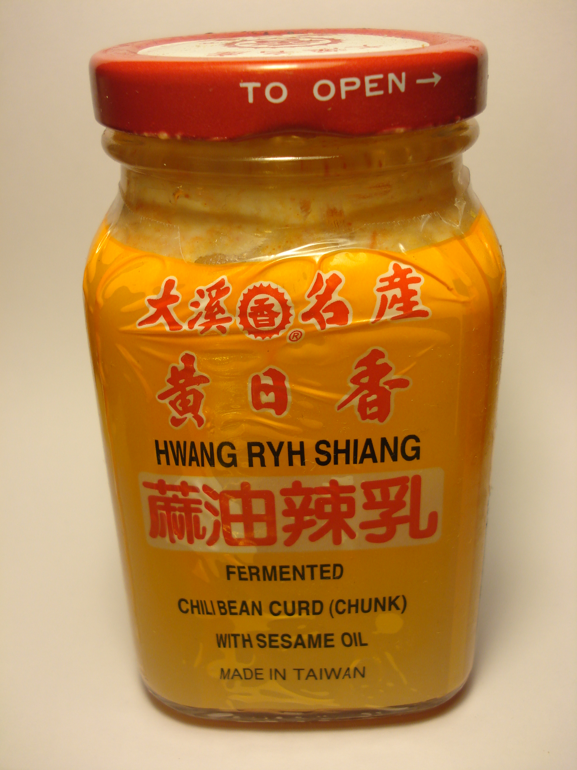 {| cellspacing="8" cellpadding="0" style="clear:both; margin:0.5em auto; background-color:#f0f0f0; border:2px solid #e0e0e0; direction: ltr; " class="licensetpl_wrapper"